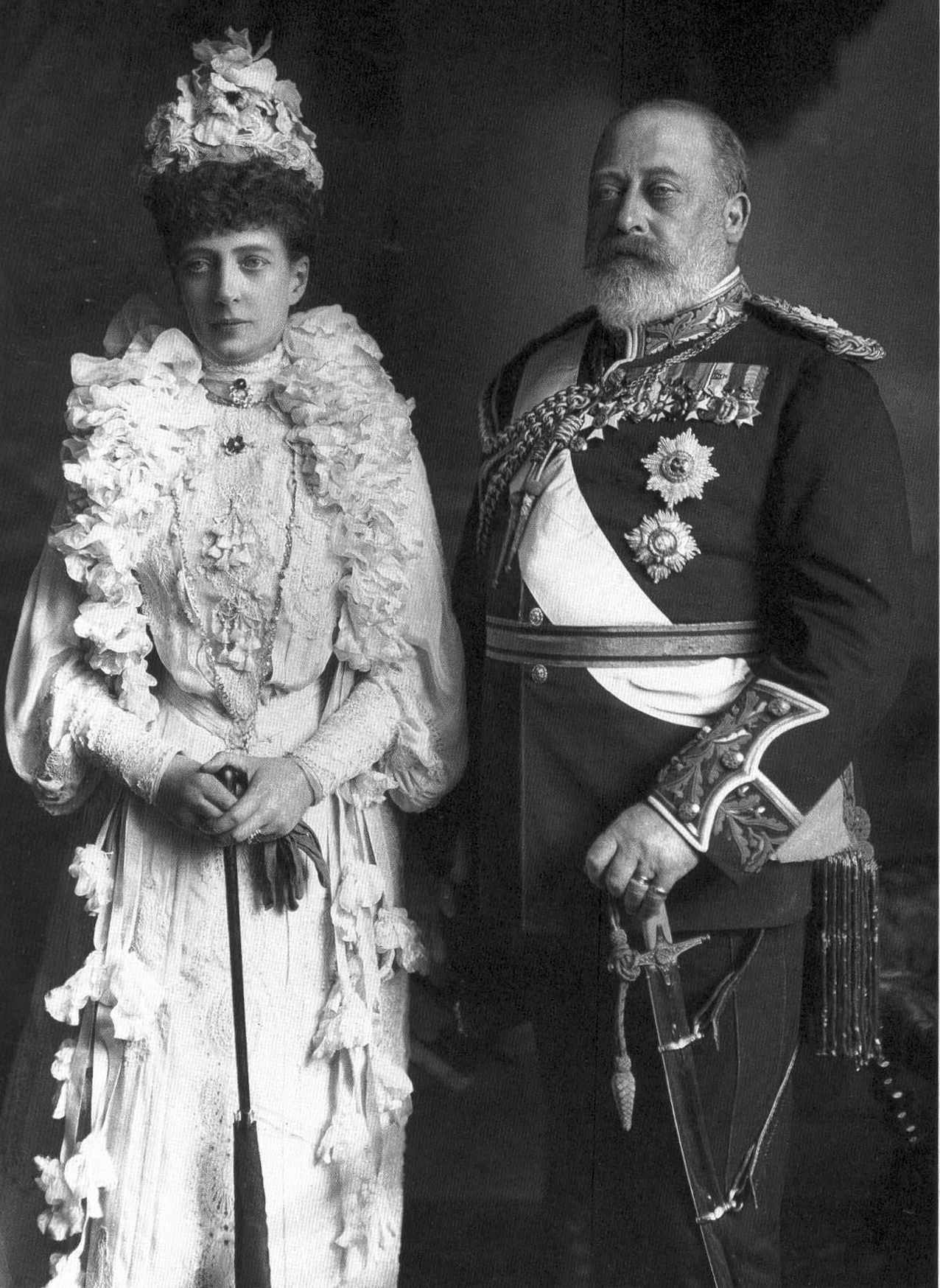 An old king and queen. Picture was taken in 1903 by James Stack Laude (aka: James L Lafayette) (1852 - 1933)